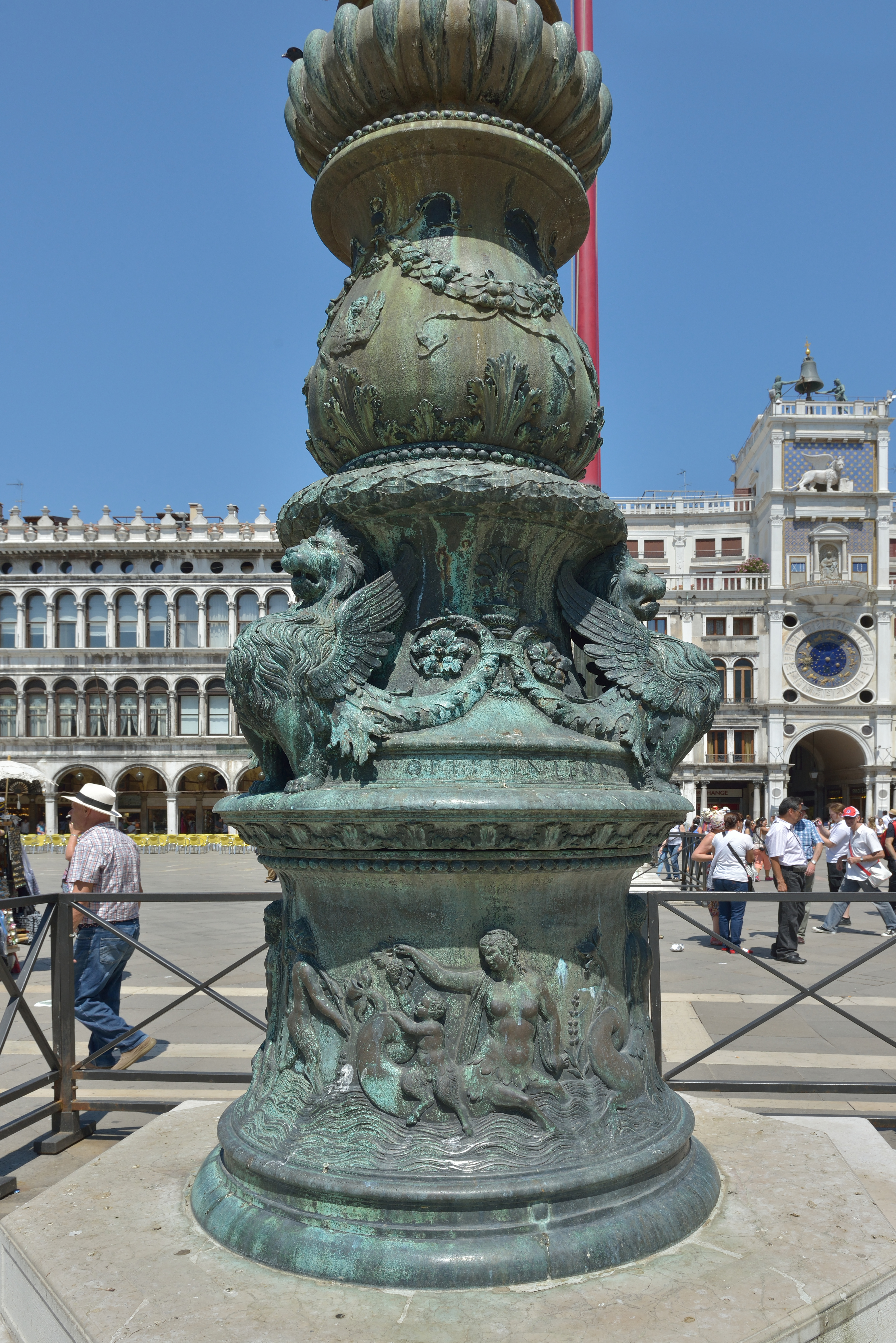 Alessandro Leopardi (1465-1523), base made in 1505 of the left side flag pylon in Piazza San Marco, Venice. Nereid and Triton, in an allegory of commerce